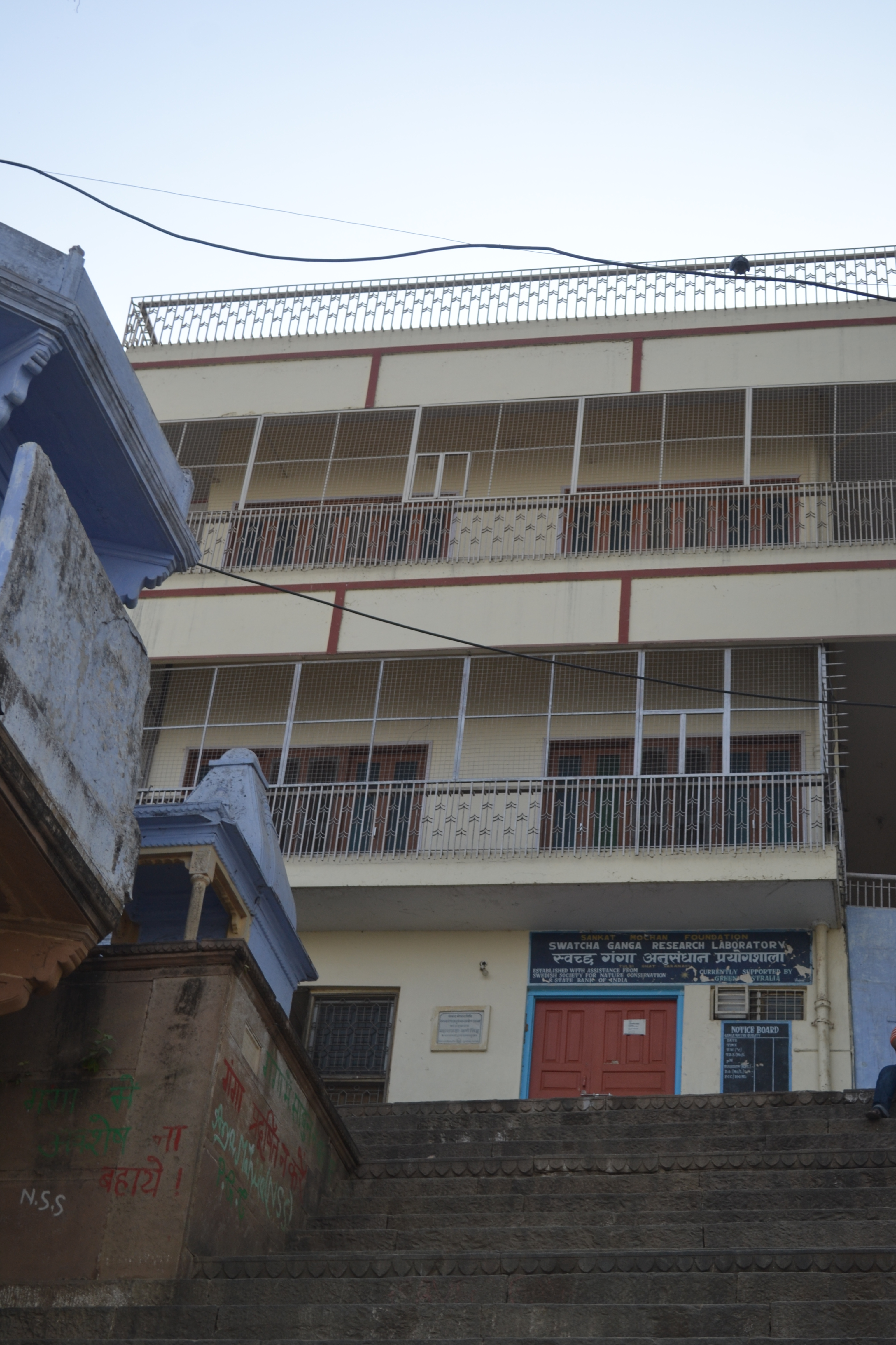 Sankat Mochan Foundation is a non governmental organization having its office at Tulsi Ghat in Varanasi